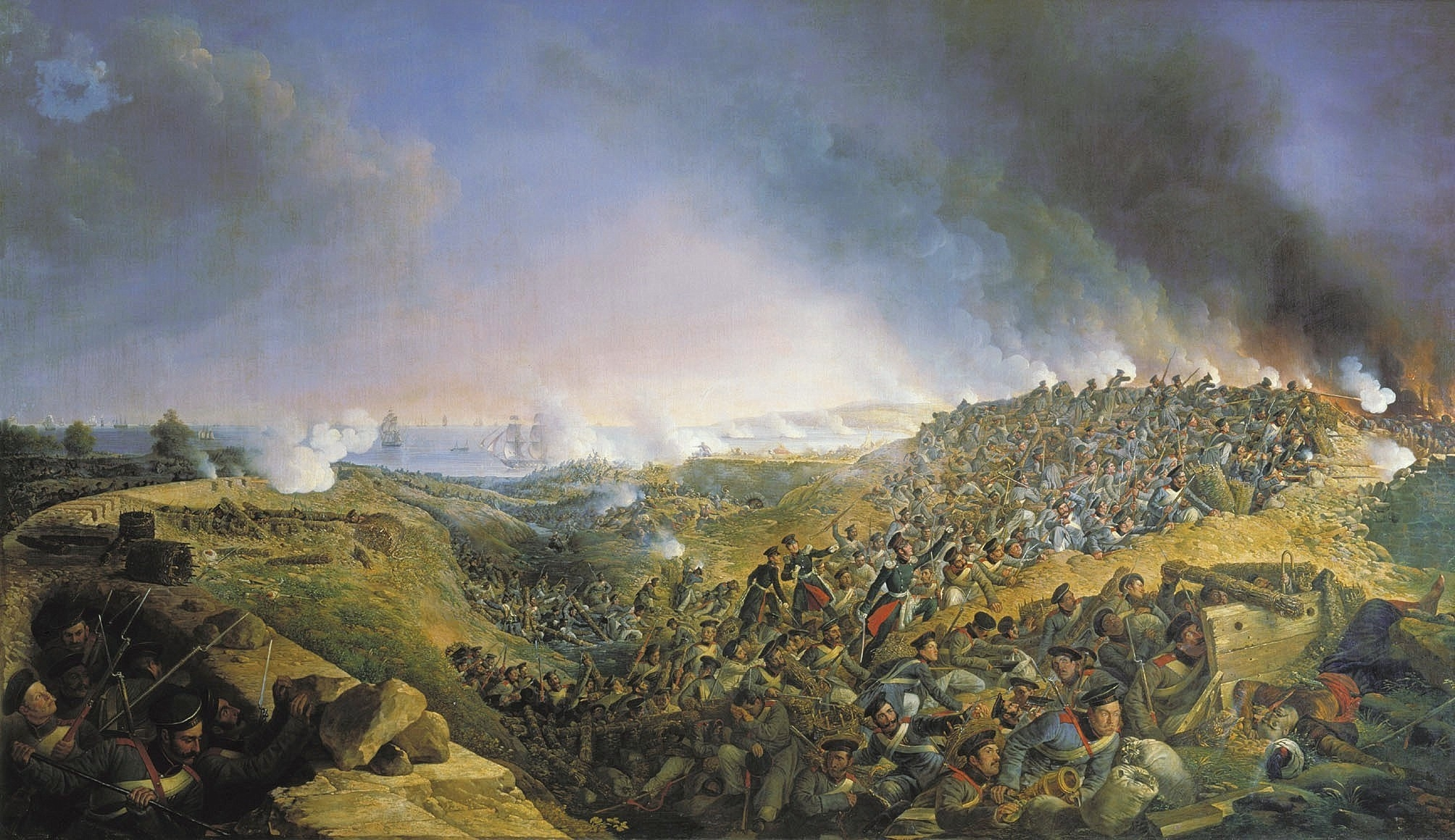 The siege of the Ottoman fortress Varna by Russian troops. Russian-Turkish war of 1828—1829.